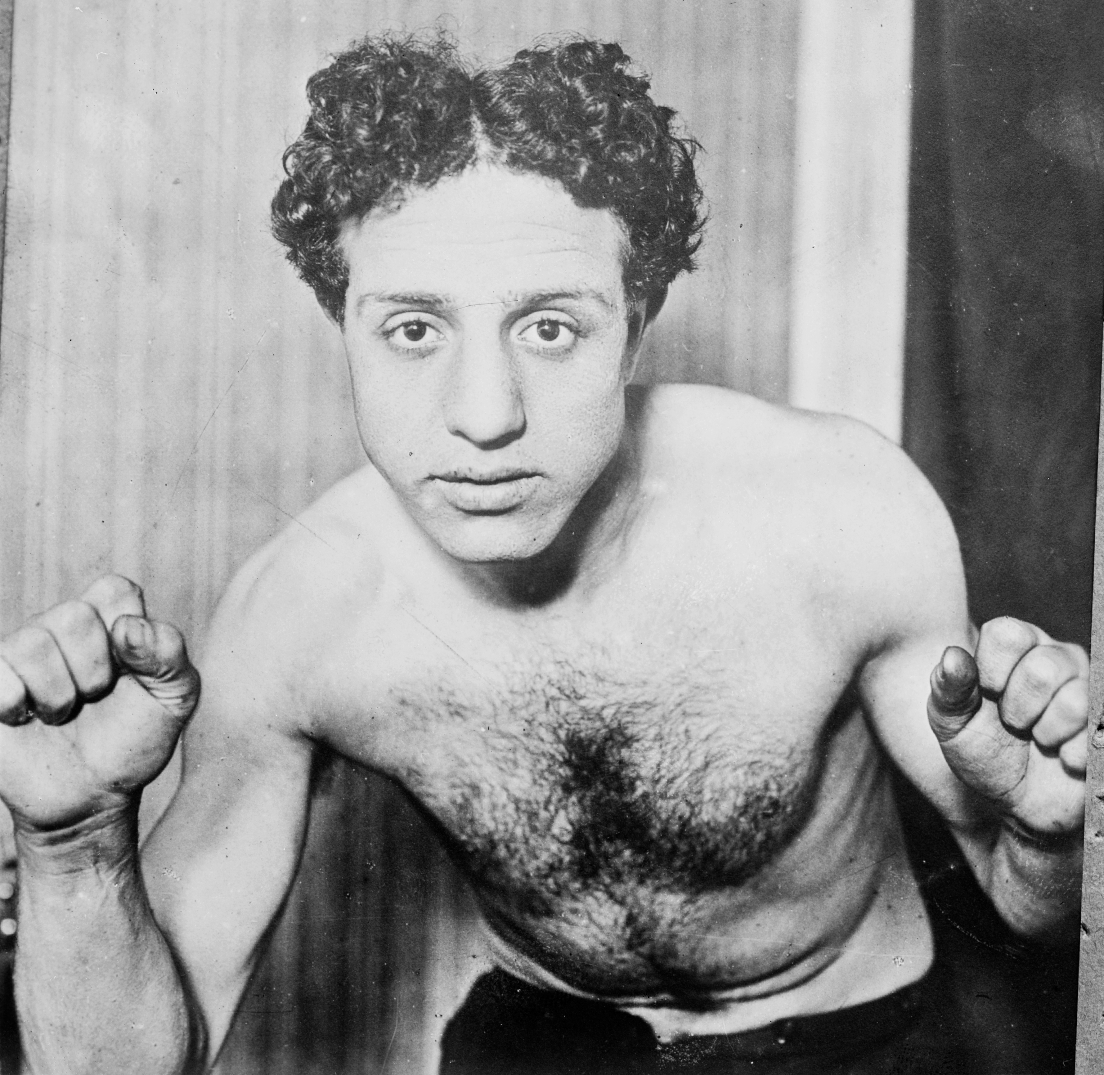 American boxer Harry Lewis (1886-1956). This photograph appears to have been published just after Harry Lewis was defeated by Georges Carpentier on 13 December 1911.